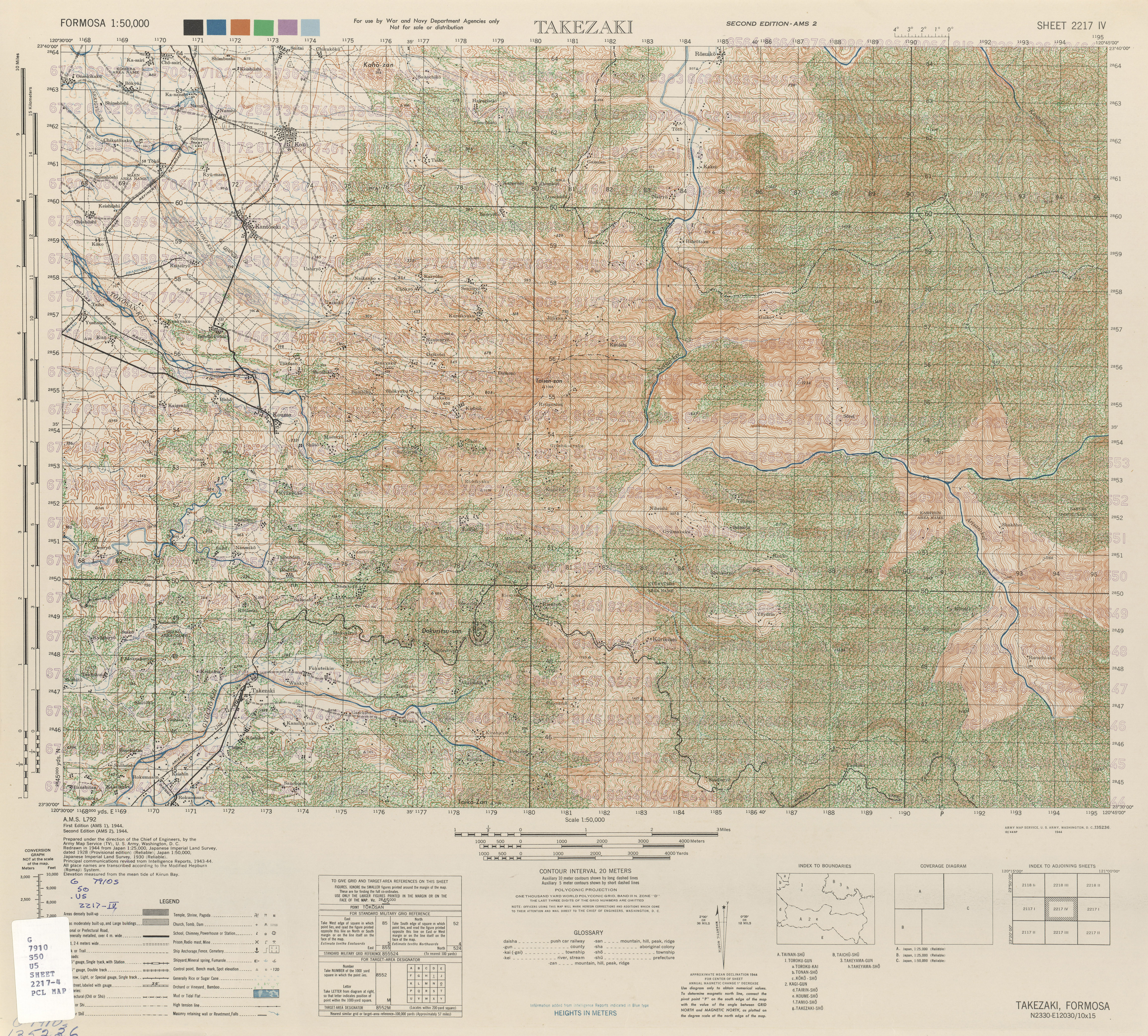 Map from Formosa (Taiwan) 1:50,000 AMS Series L792